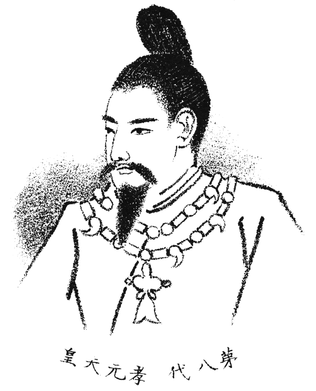 Emperor Kōgen, who was the 8th emperor of Japan